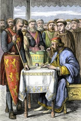 King John of England signing Magna Carta on June 15, 1215, at Runnymede; coloured wood engraving, 19th century.